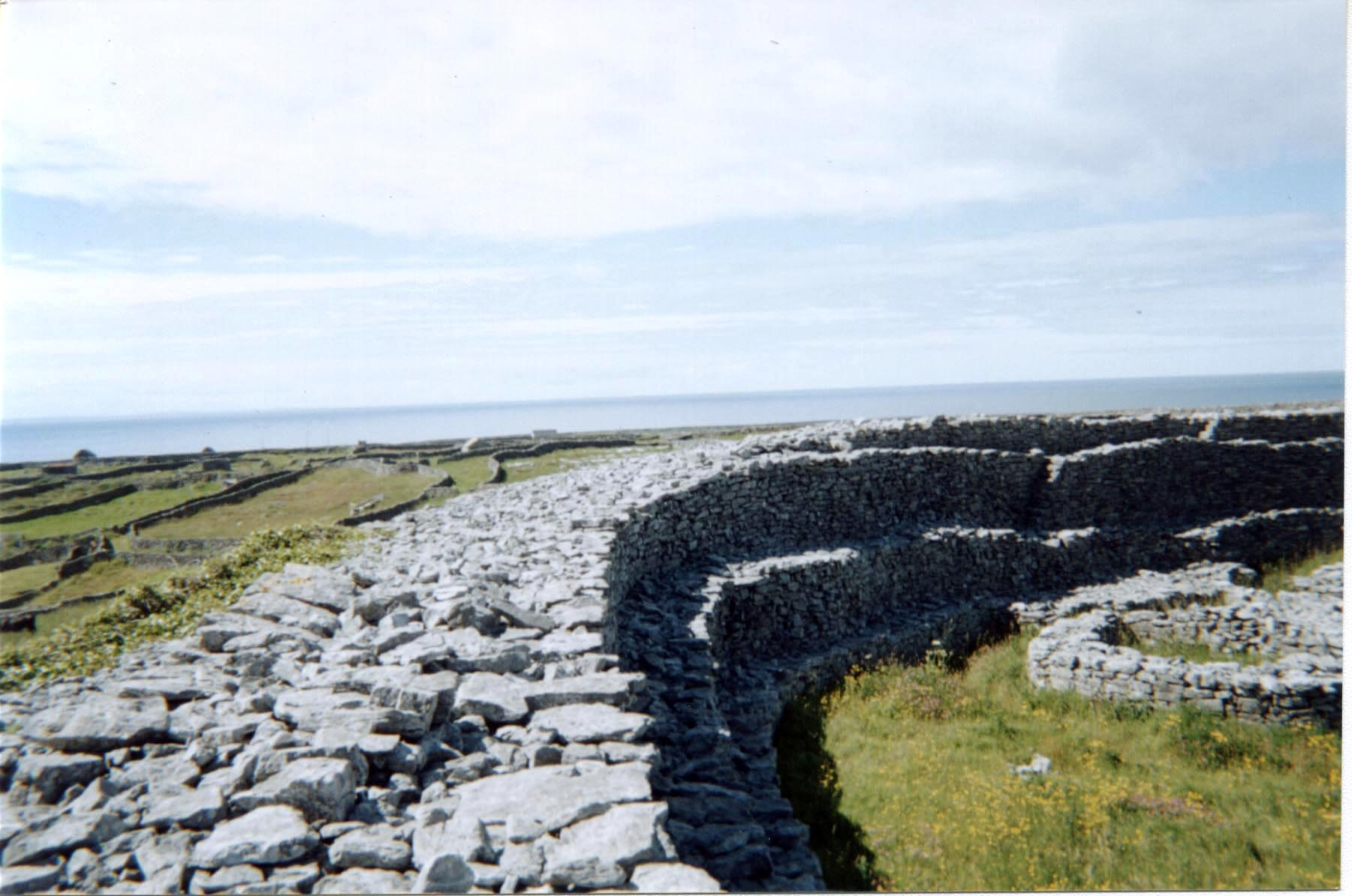 Ringfort in Ireland.